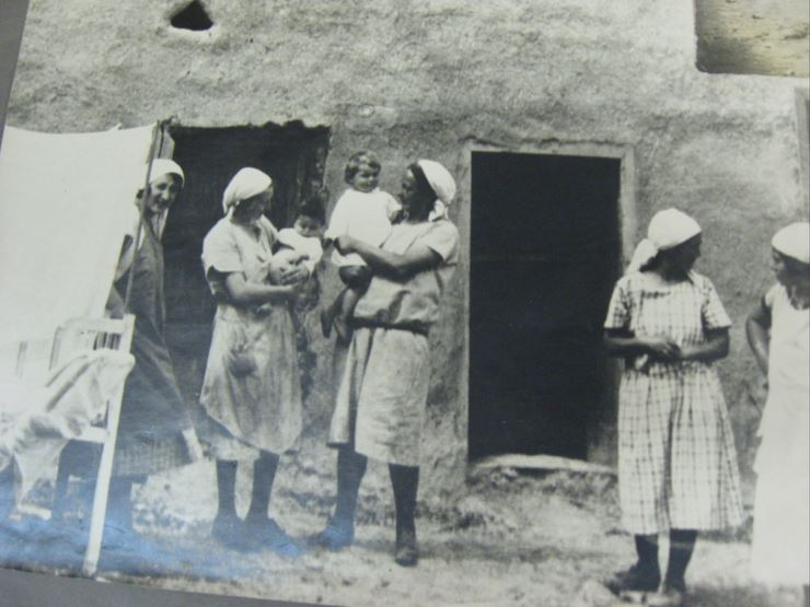 Photo from the previous settlement of Beit Zera in Um Juni, 1927